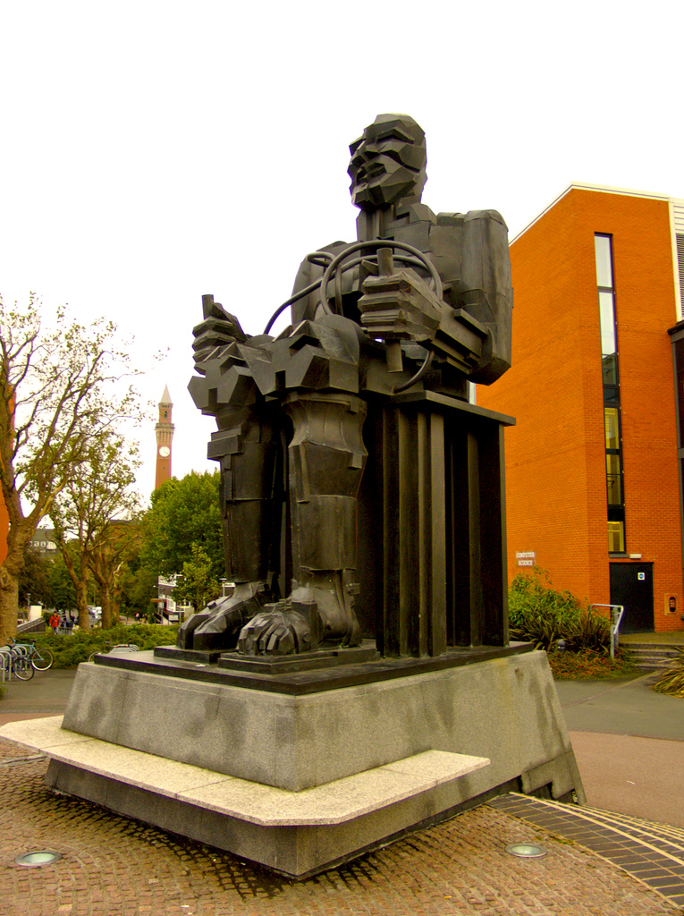 One of the sculptures on the University of Birmingham sculpture trail, I see this one regularly as my building is behind (the red bricks). This sculpture is by Sir Eduardo Paolozzi and stands close to the West Gate, next to the University Train Station. Seen in the Background is Old Joe, the University Clock Tower, I have a couple of pictures of this close up too. This photo is licensed under a Creative Commons license. If you use this photo, please list the photo credit as "Daniel Morris" and link the credit to .